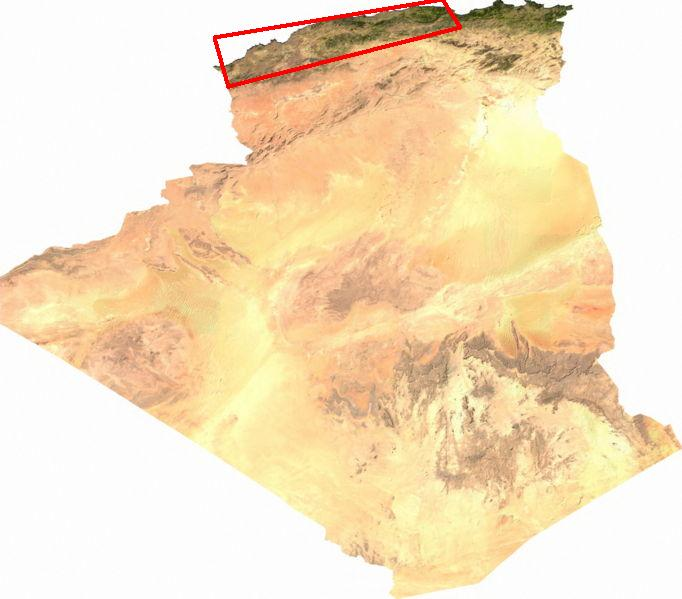 Modified version of Commons image Image:Algeria sat.jpg to show the location of most of Algeria's wine regions.